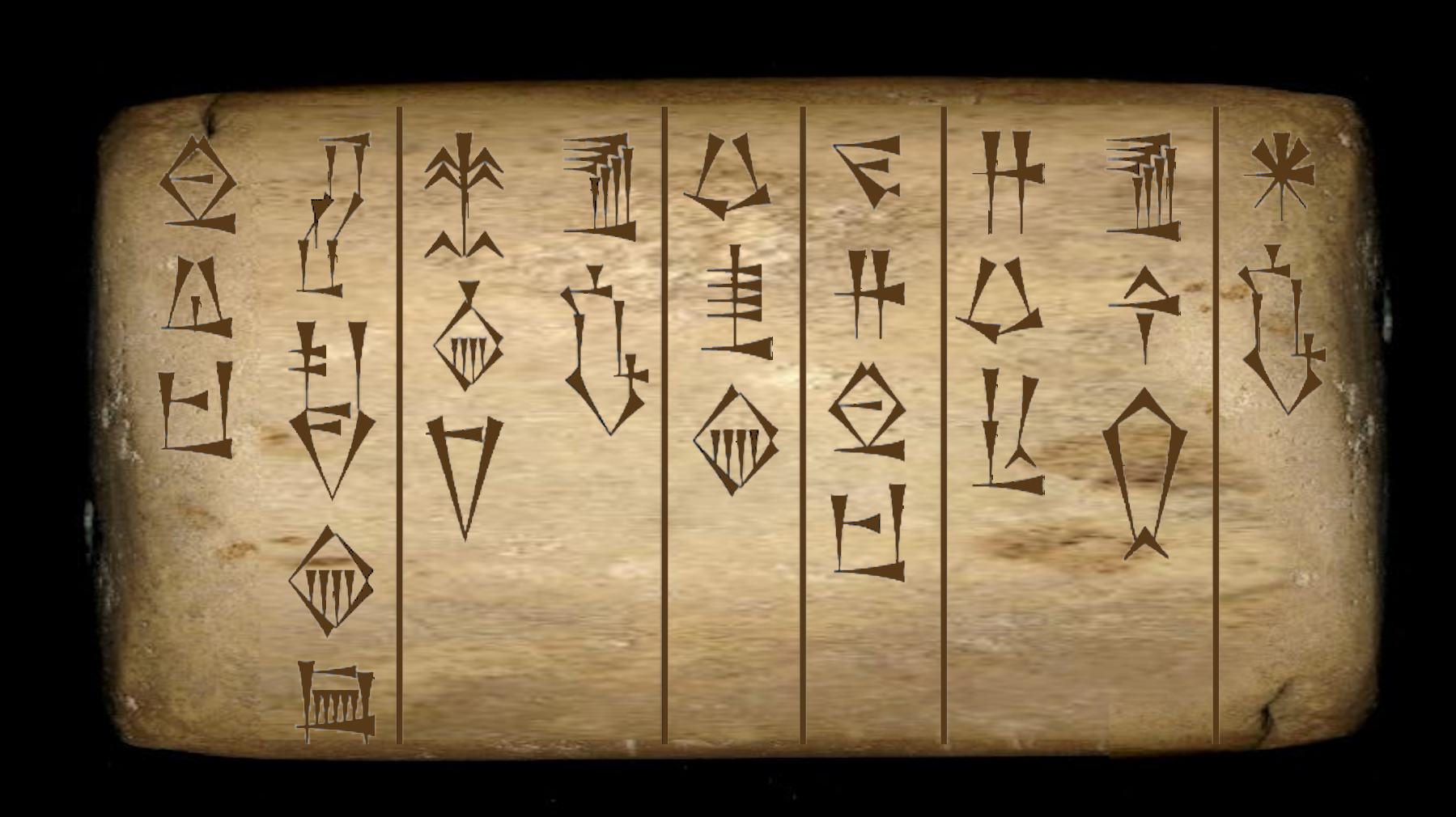 Tablet of E-iginimpa'e (Reconstitution, for illustration purposes), original in Hermitage Museum